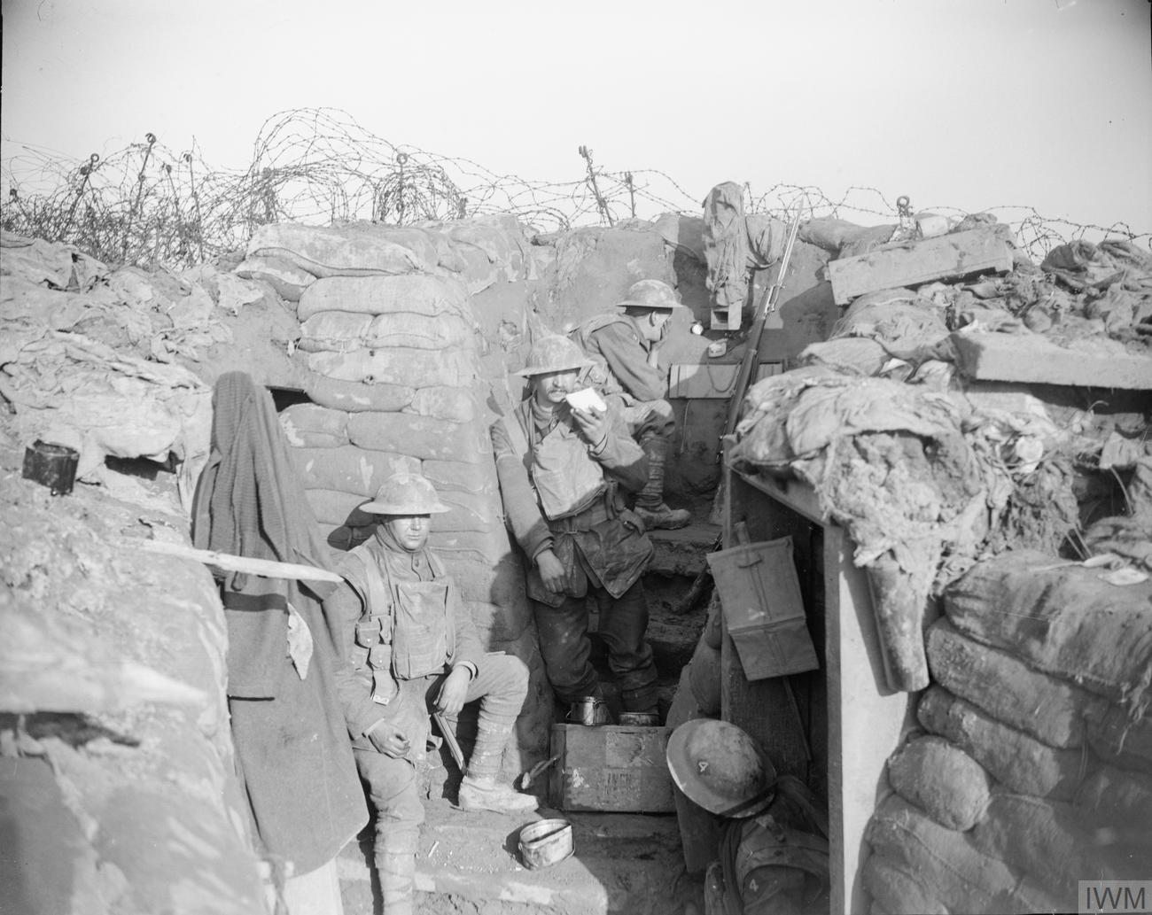 Title: THE EAST LANCASHIRE REGIMENT DURING THE FIRST WORLD WAR Description: A general scene showing men of the 1/4th East Lancashire Regiment in a sap-head at Givenchy.